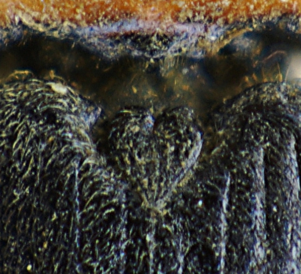 Cardiophorus gramineus scutellum